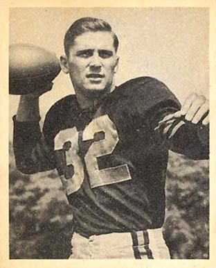 American football player Johnny Lujack on a 1948 Bowman card.